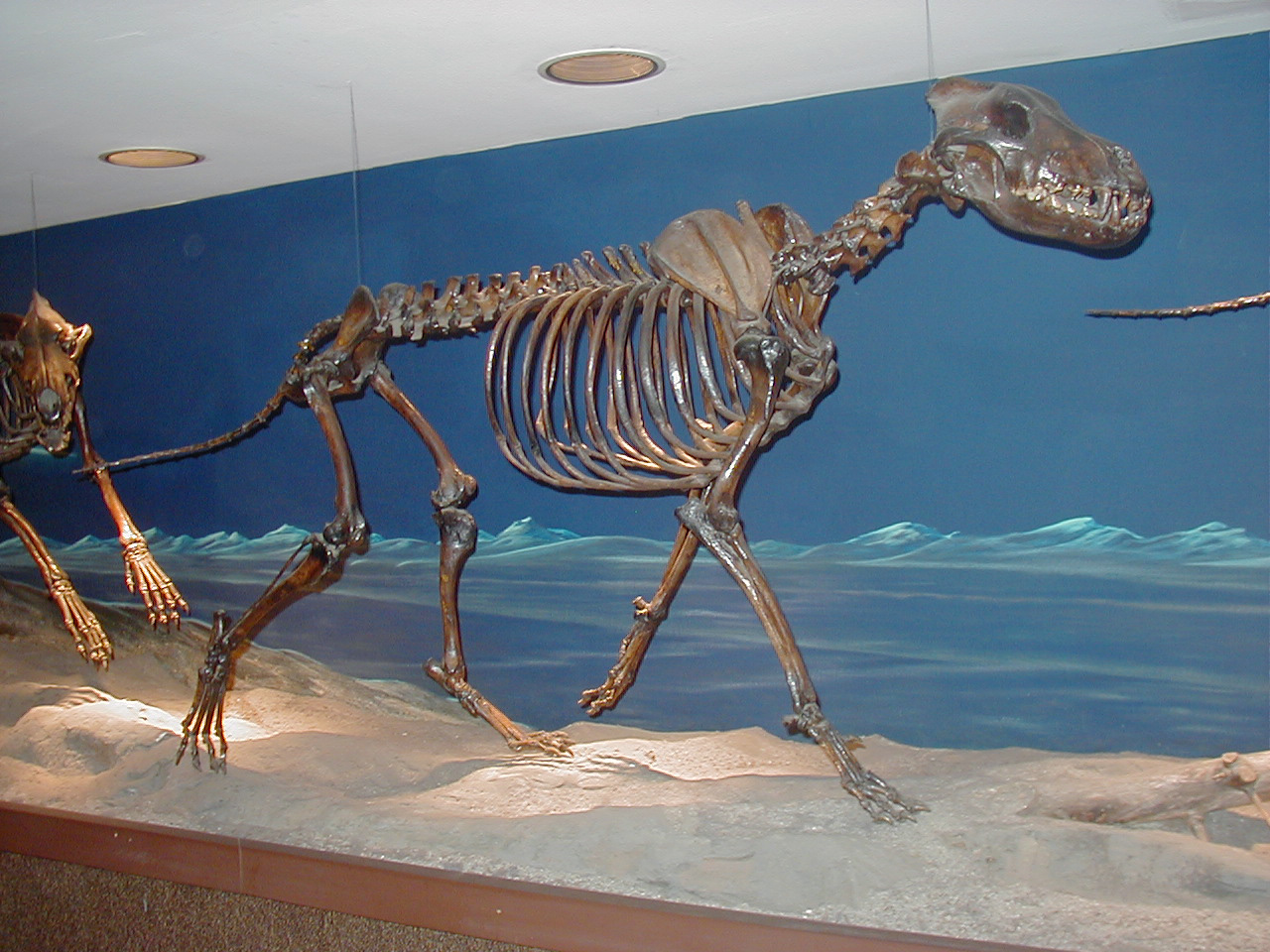 Skeleton of a dire wolf, Canis dirus, in the George C. Page Museum at the La Brea Tar Pits, Los Angeles, California